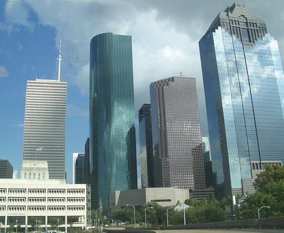 Skyline District of Downtown